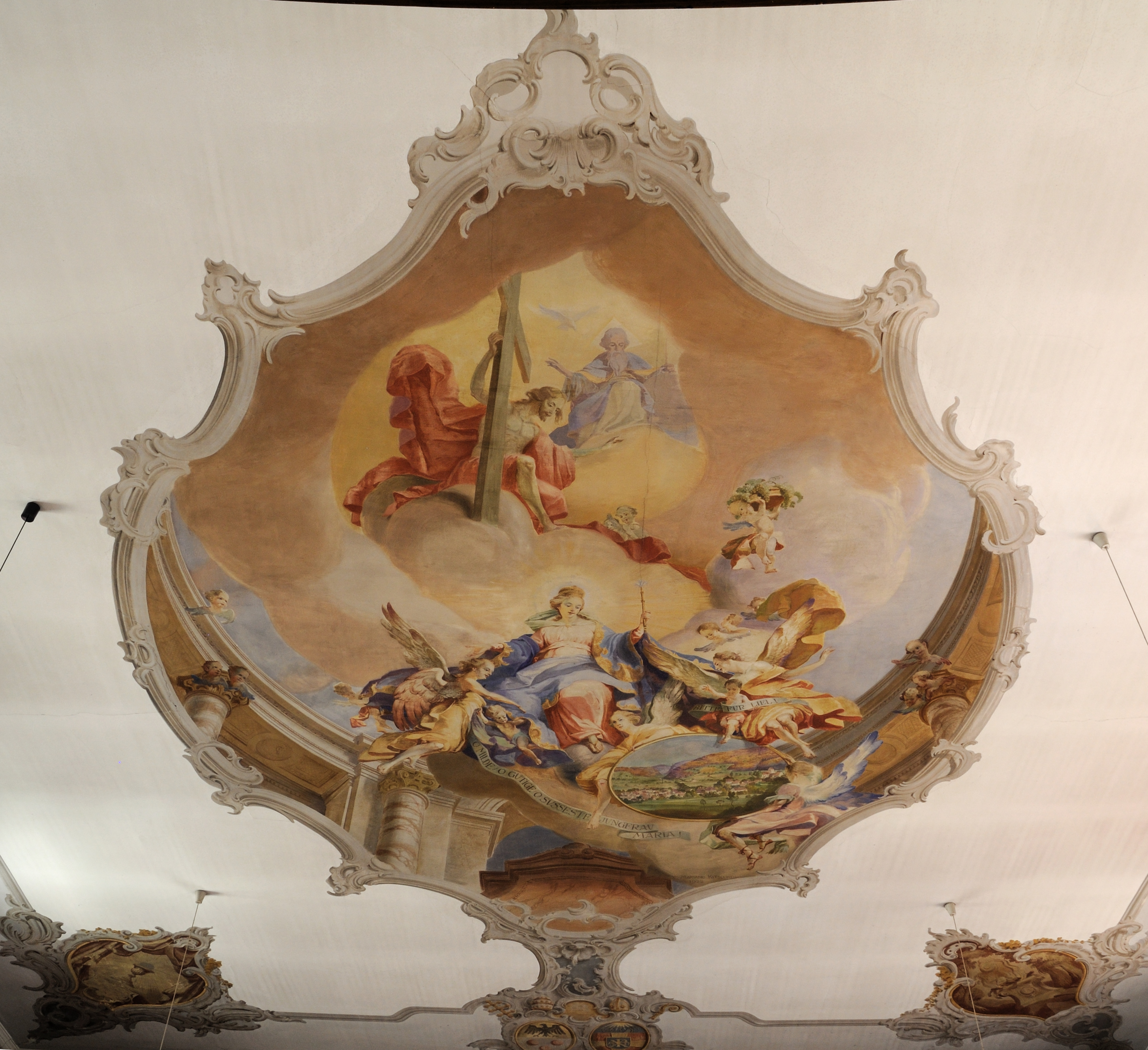 Liel: Saint Vinzenz Church